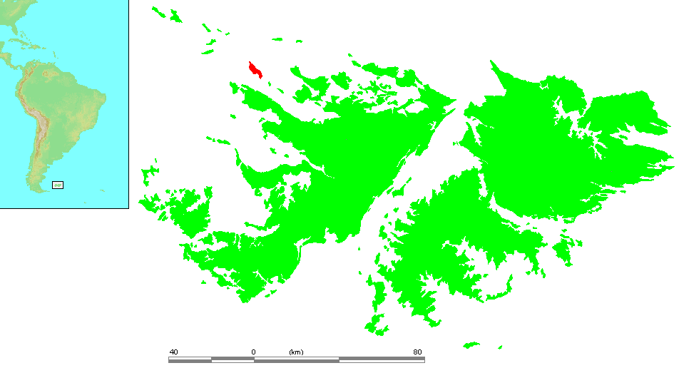 Falkland Islands - Carcass Island.PNG